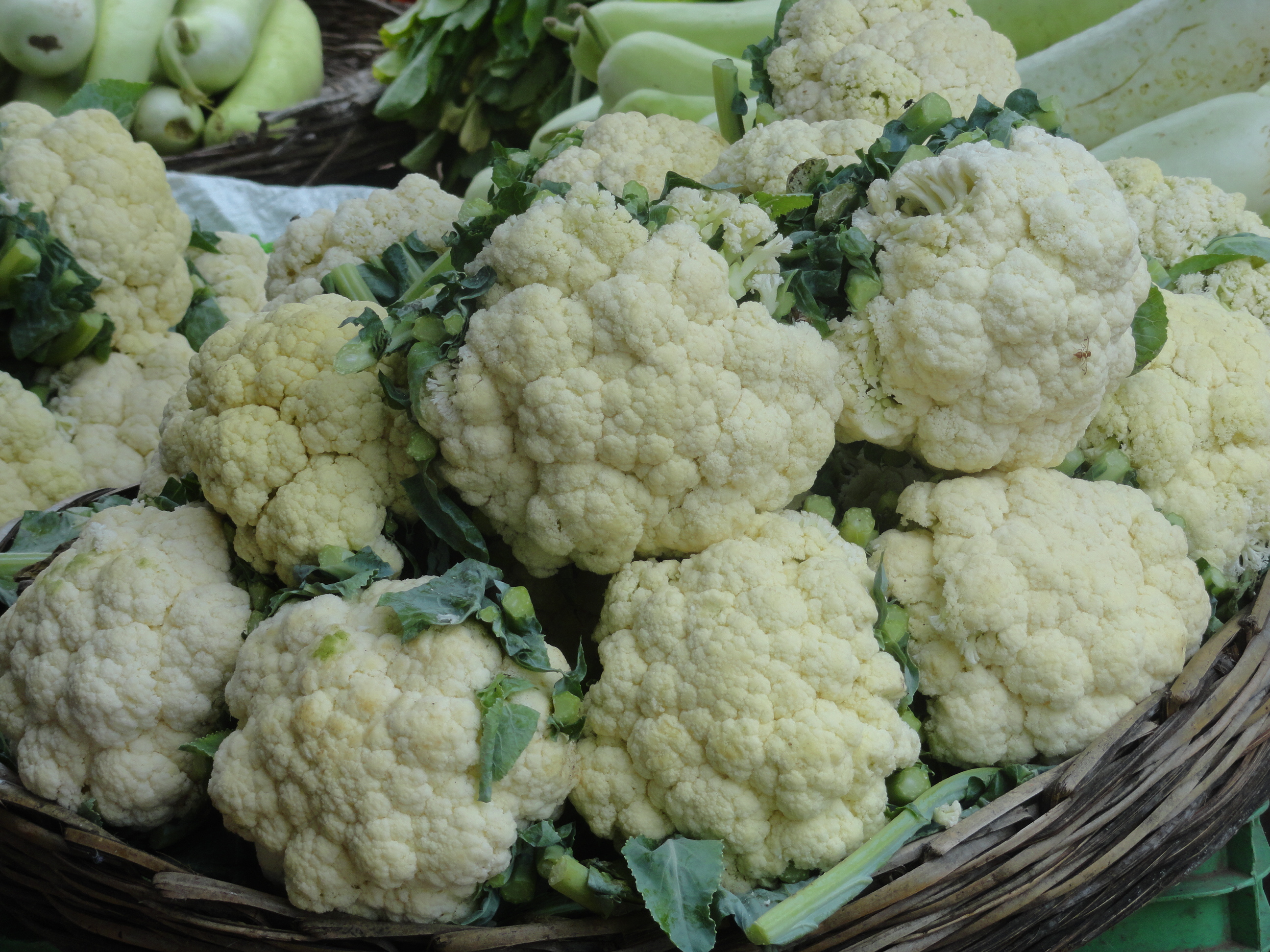 కాలి ప్లవర్